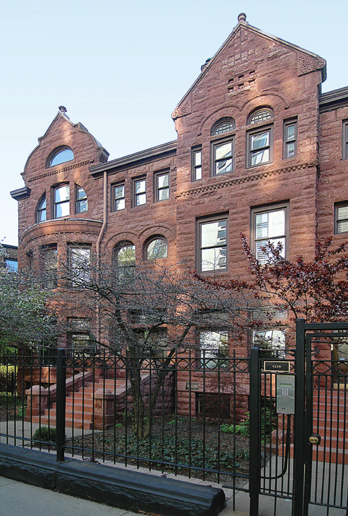 Luxury condominiums at 1224 Dearborn Street, Chicago, Illinois, United States.